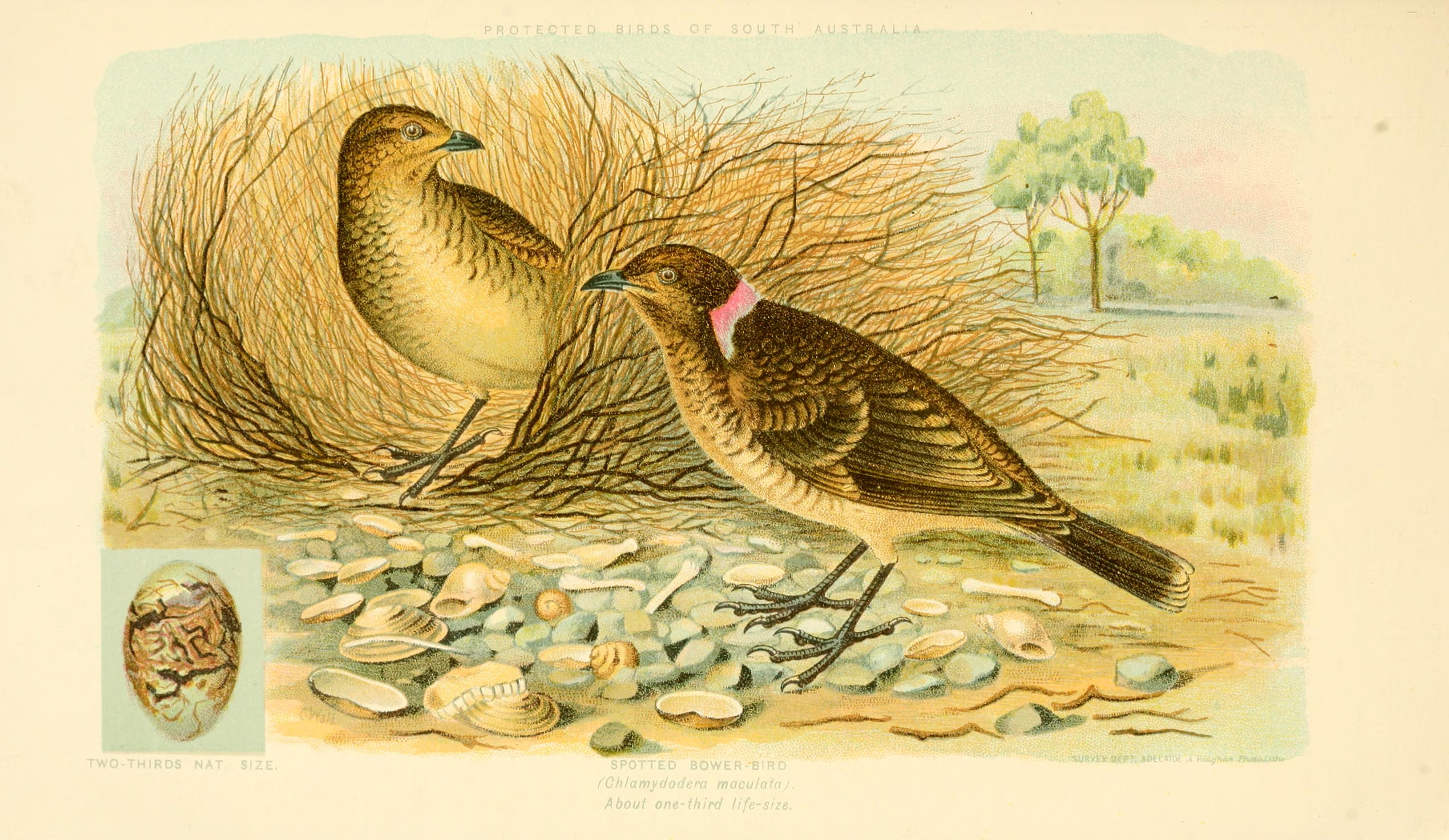 Title: Protected native birds of South Australia Year: 1910 (1910s) Authors: Duffield, Thomas Subjects: Birds Birds Publisher: Adelaide : Rogers Text Appearing Before Image: bird has been recorded from theMurray. Food.—Its food consists chiefly of seeds and berries of native plants. The Bower.—The pair of bower birds build a bower or avenue of sticks and grass.This bower is not the nest, but the playground of the birds. They collectpieces of bleached bone, pieces of bright stone, and bits of pearly shell,which they scatter immediately about the entrance of their bower. Nest.—The nest, which is saucer shaped, is loosely built of twigs and lined withgrass. It is usually placed in a thick pine or melaleuca. Nesting opera-tions extend over the months of October, November, and December. Eggs.—The usual number in a clutch is two. It is, however, not uncommon tofind three in a nest. The eggs vary very much in shape and size, butaverage measurements are about 1 Jin. x lin. The eggs are light yellowishgreen, beautifully marbled with reddish brown and dark umber. Bluishgrey blotches appear below the surface. The markings often resemblezig-zag brusli marks. Text Appearing After Image: ^*1fe PROTECTED BIRDS OF SOUTH AUSTRALIA